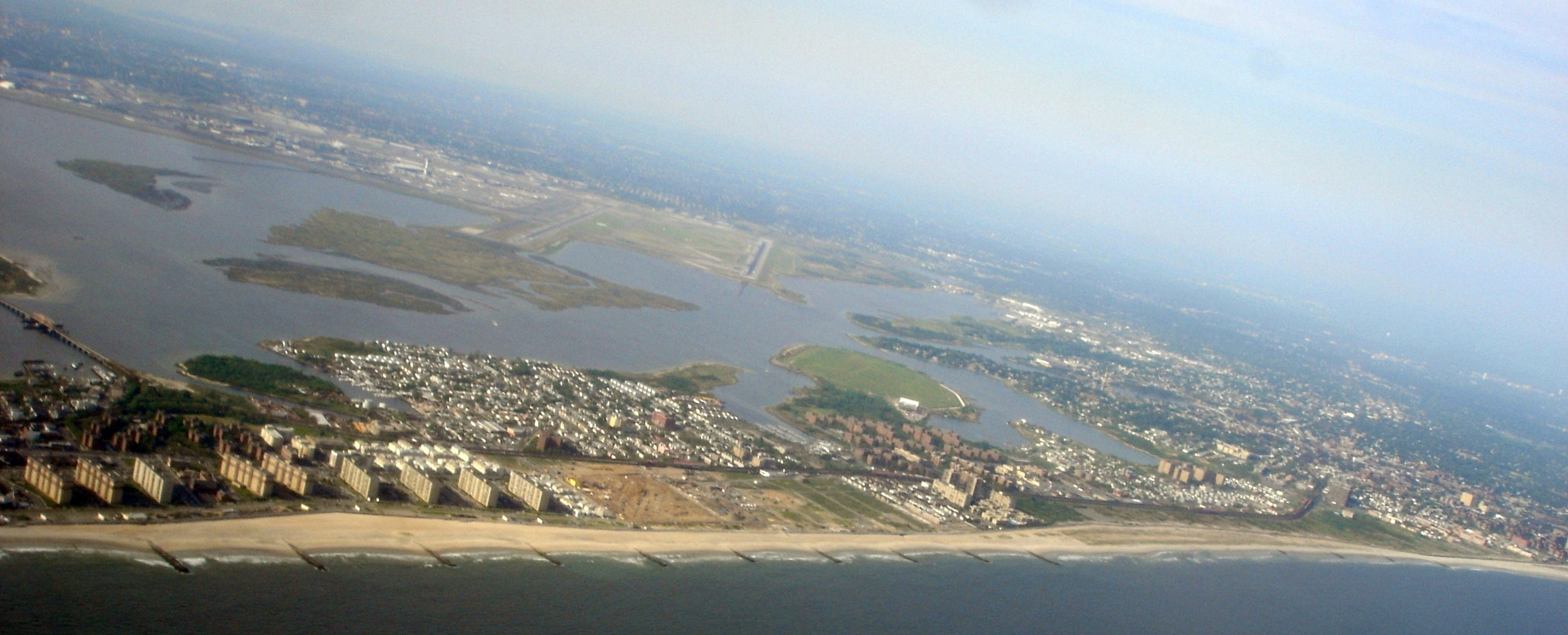 A picture I took on my senior trip